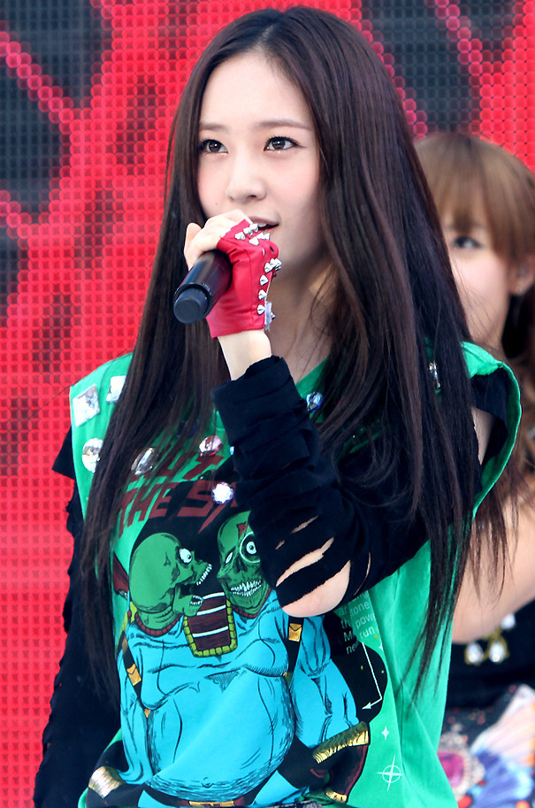 Krystal at the M SUPER CONCERT in July 28, 2012.